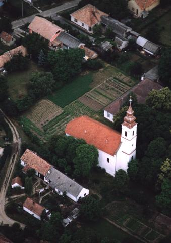 Látrány, Hungary, aerialphotography